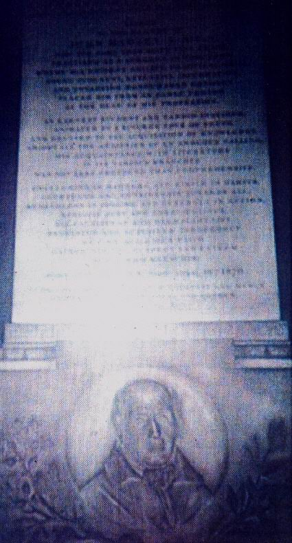 Memorial to John Badley, F.R.C.S. in the nave of Saint Edmund's Church, Dudley, West Midlands, England.